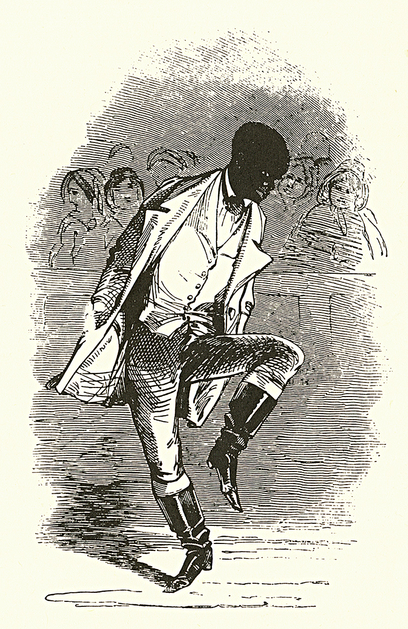 William Henry Lane, a.k.a. "Master Juba"